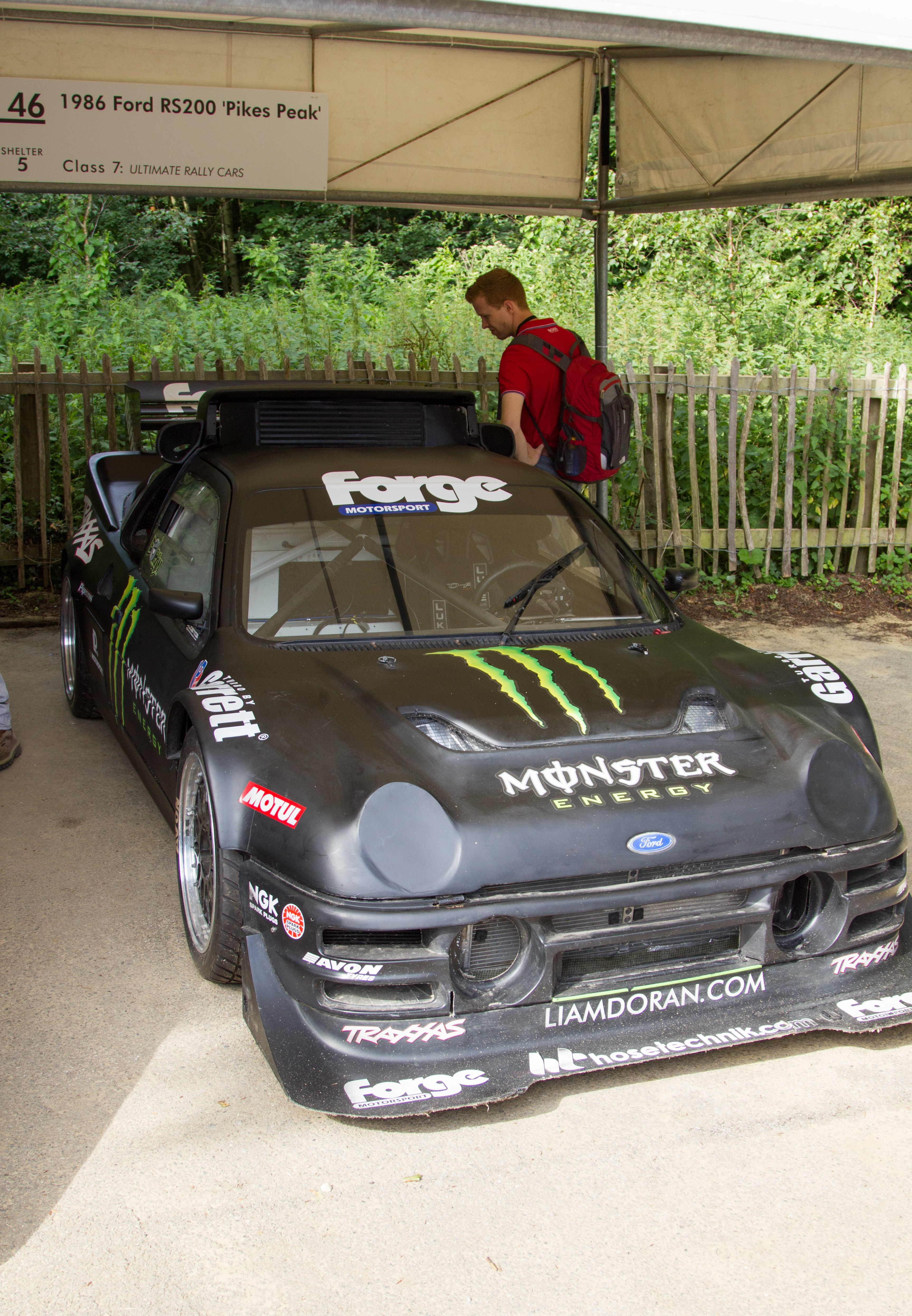 The 1986 Ford RS200 of Liam and Pat Doran at the 2014 Goodwood Festival of Speed. The car was built to compete at the 2013 Pikes Peak Hillclimb.